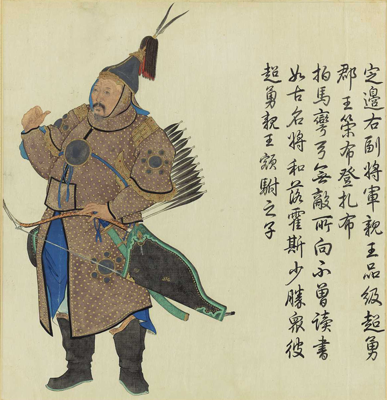 Cebdenjab (策布登扎布, 1705-1782) a mongol officer of the Qing Army during Qianlong's era.